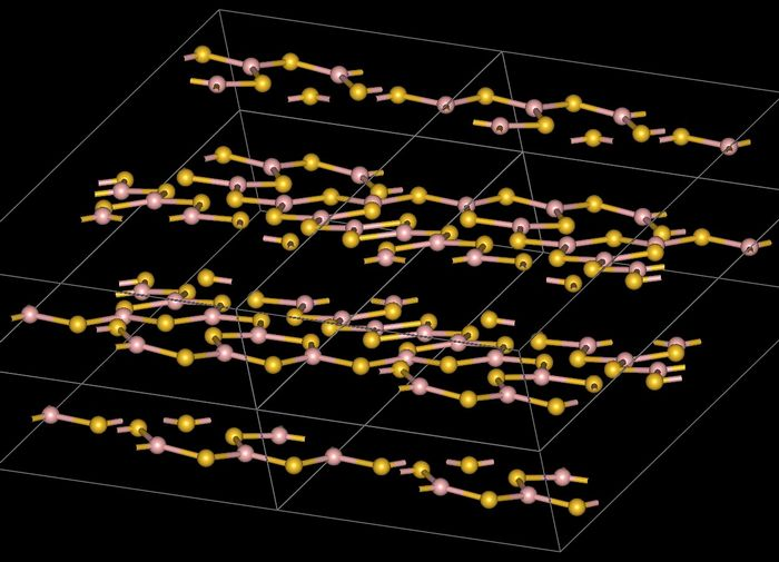 Boron sulfide structure. Sulfur atoms are yellow. Journal = ANGEWANDTE CHEMIE, Year = 1977, Volume = 89, Page = 327–328, Title = Kristallstruktur von B2S3: B2S2-Vierringe neben B3S3-Sechsringen, Authors = Diercks H., Krebs B.